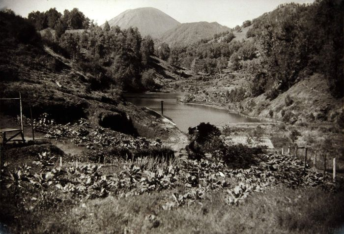 View over the lake Ranu Pani